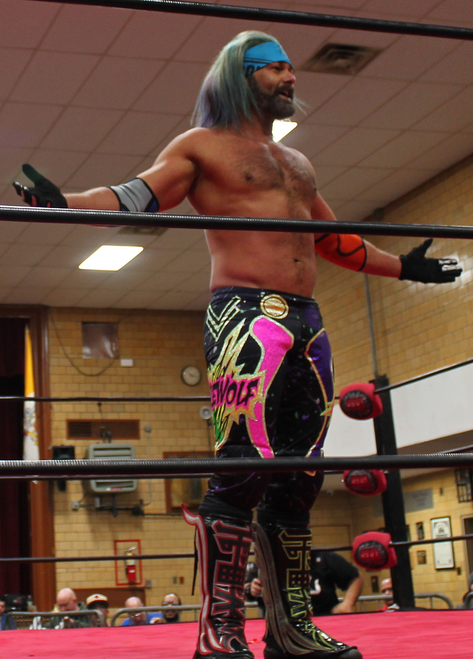 PJ Black at a Warrior's of Wrestling event in April 2018.